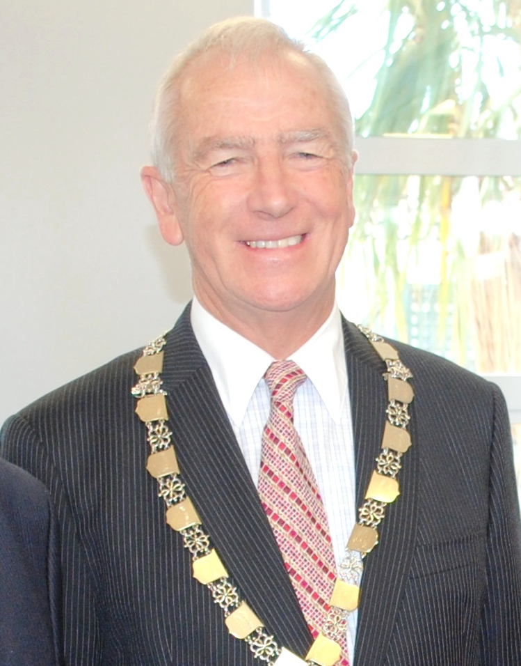 David Ogden (mayor of Hutt City), at the opening of a new classroom block at St Oran's College, on 19 March 2010.